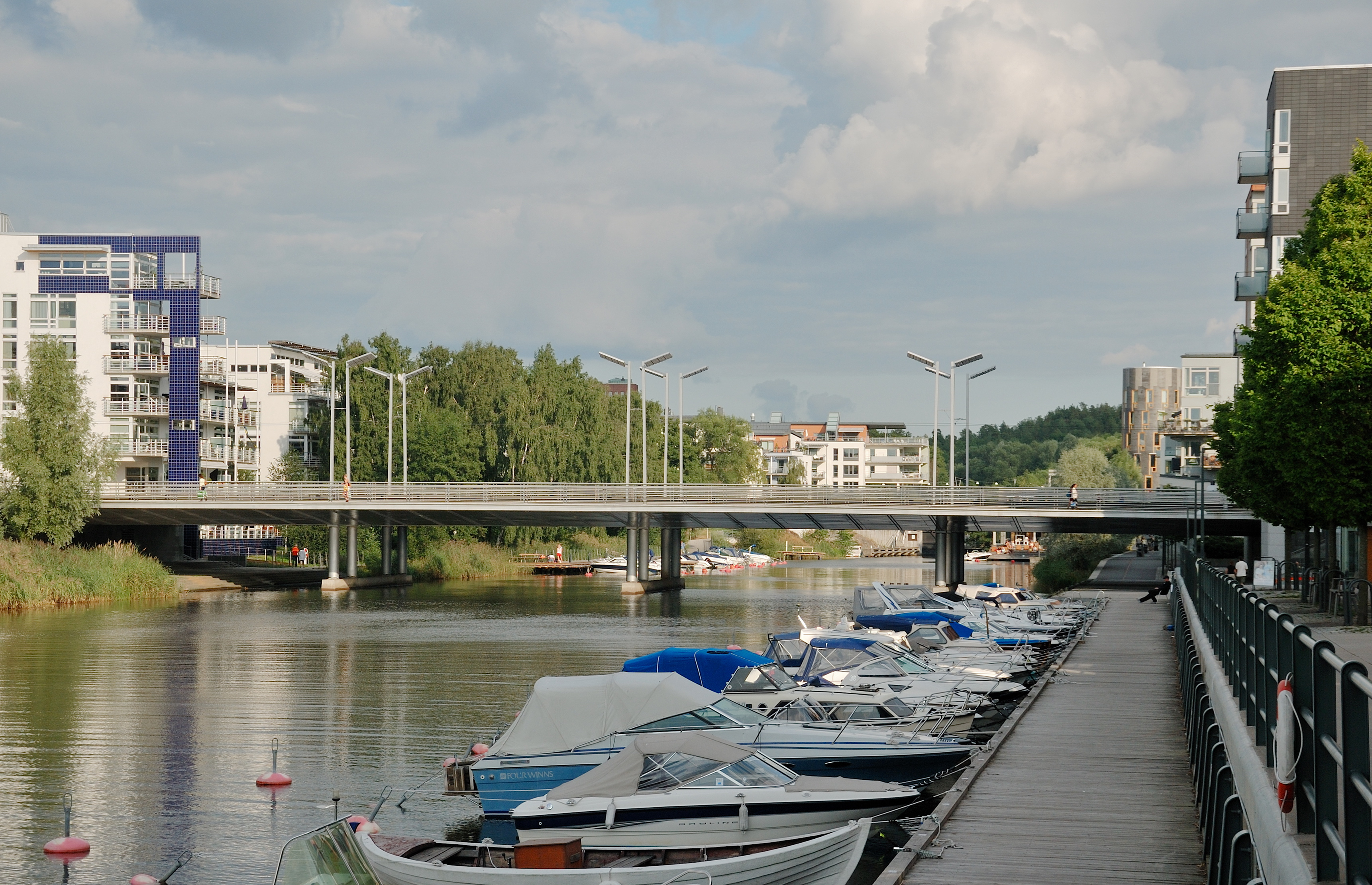 Allébron, July 2011.